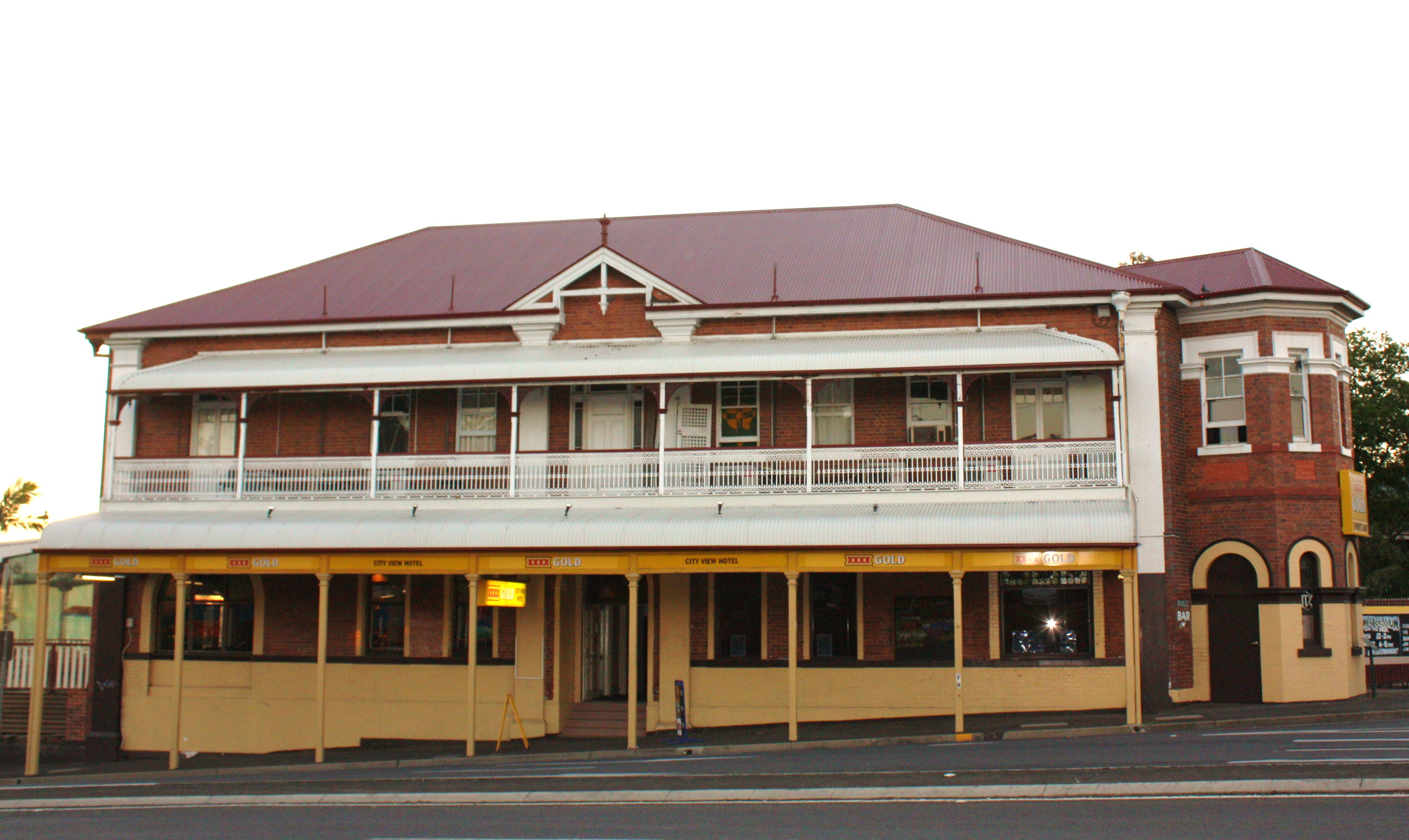 City View Hotel on Brisbane Rd, West Ipswich. This site was a difficult triangular one adjoining a deep railway cutting excavated in 1875. Architect George Brockwell Gill produced a skillful solution to the problem, locating an octagonal two-storey "tower" to disguise the sharp corner of the building, while the front appears as a traditional two-storey verandah hotel.